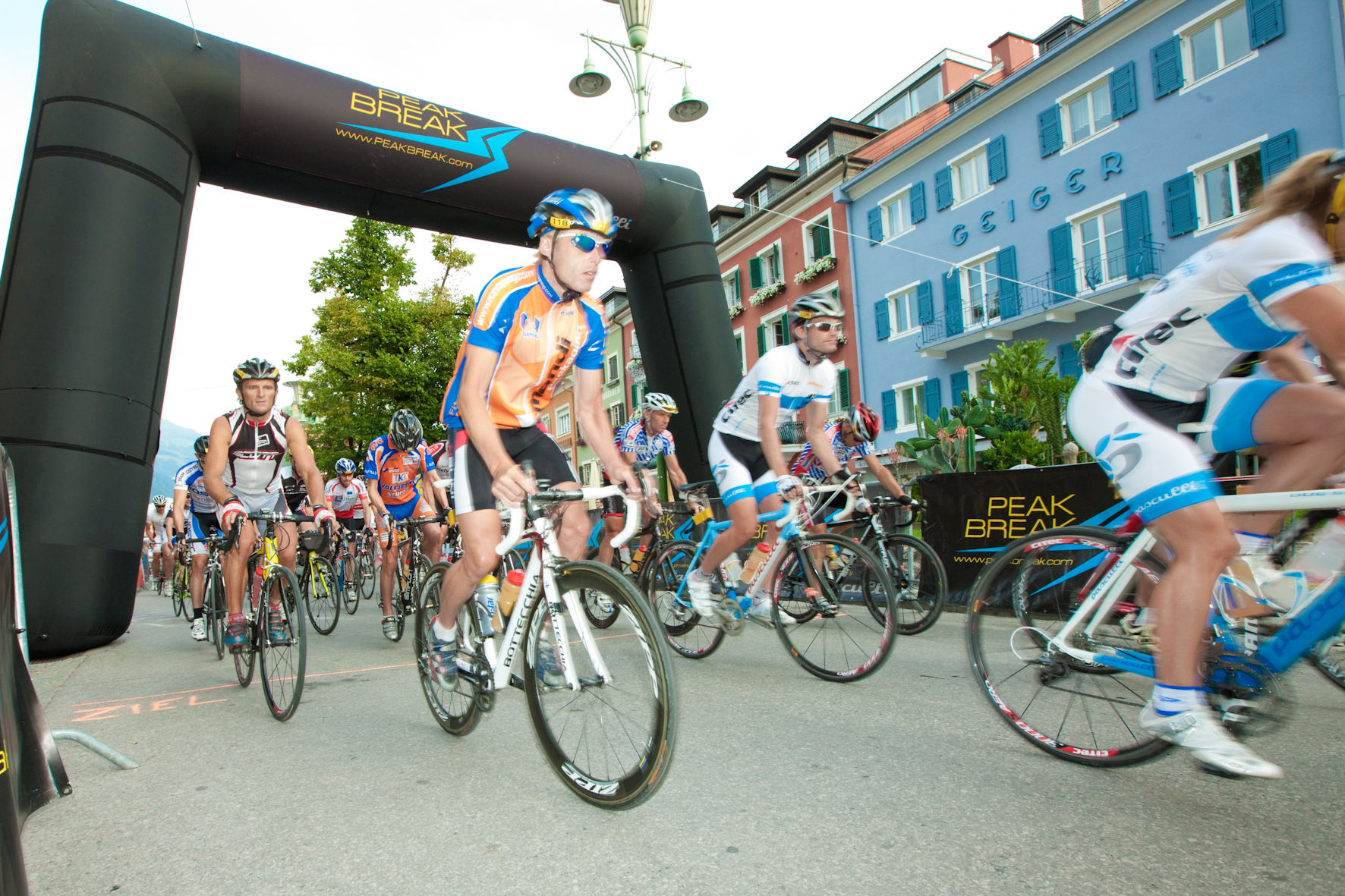 Peakbreak 2011 Start Lienz